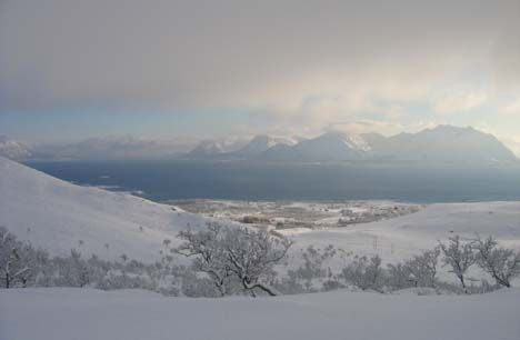 natur